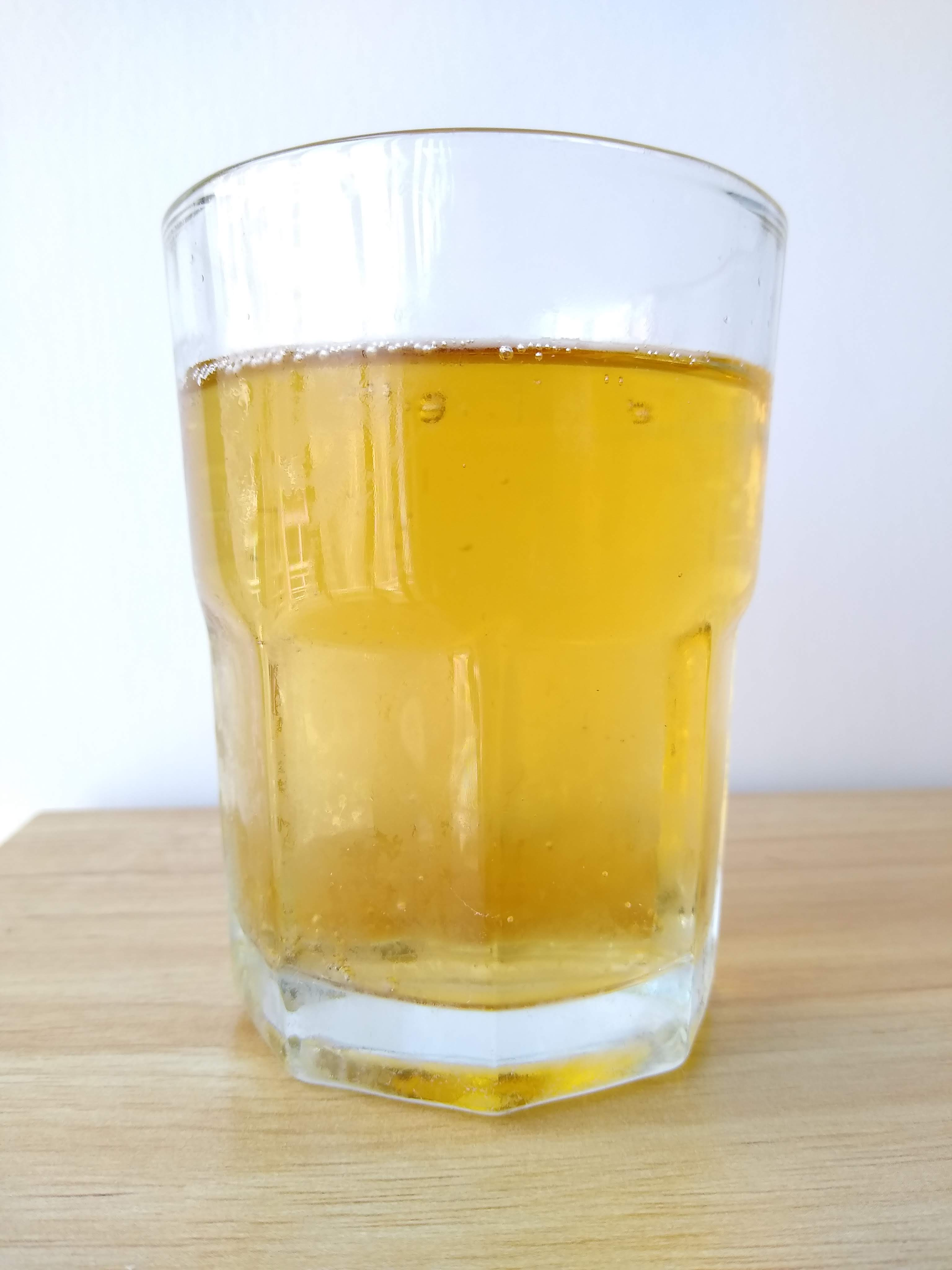 An apple vinegar beverage (苹果醋饮料) sold in China by 天地壹号.